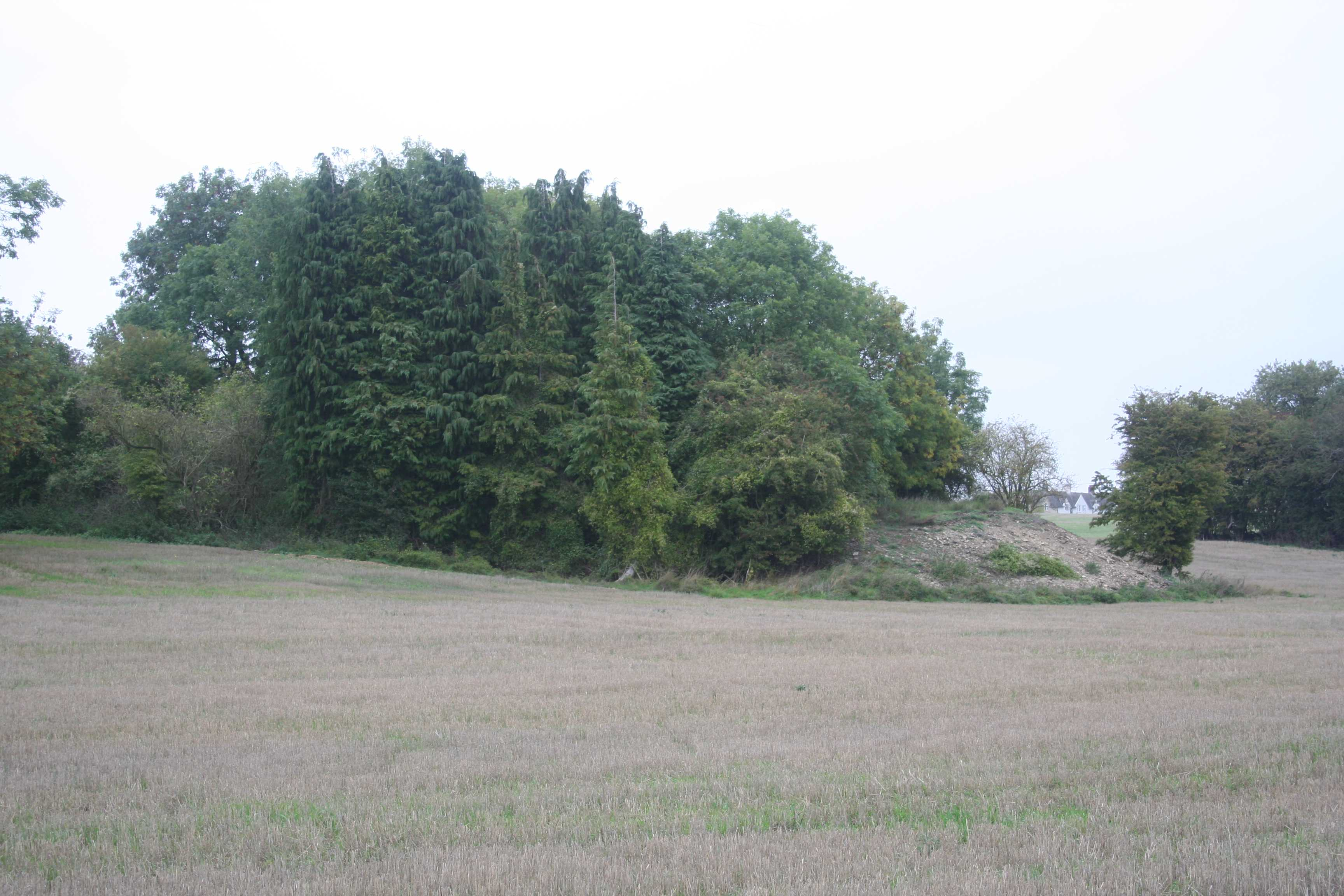 Spoil from stone mines at Stonesfield, Oxfordshire